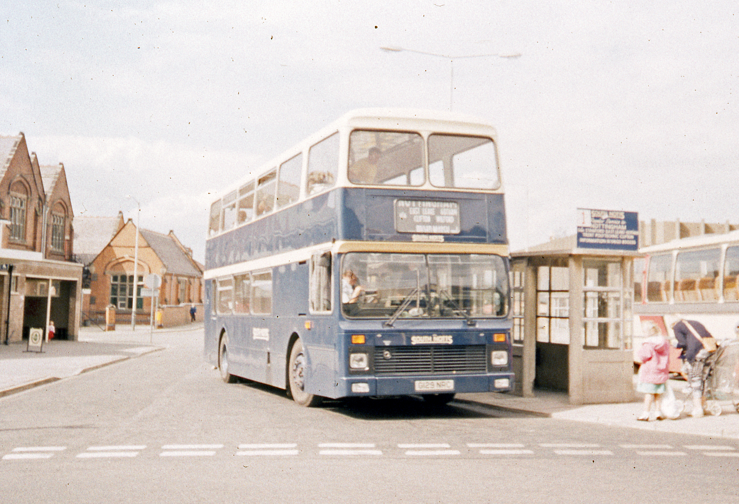 South Notts Bus Company 129, G129 NRC a Leyland Olympian with Northern Counties bodywork, in Loughborough Bus Station awaiting departure for Nottingham.